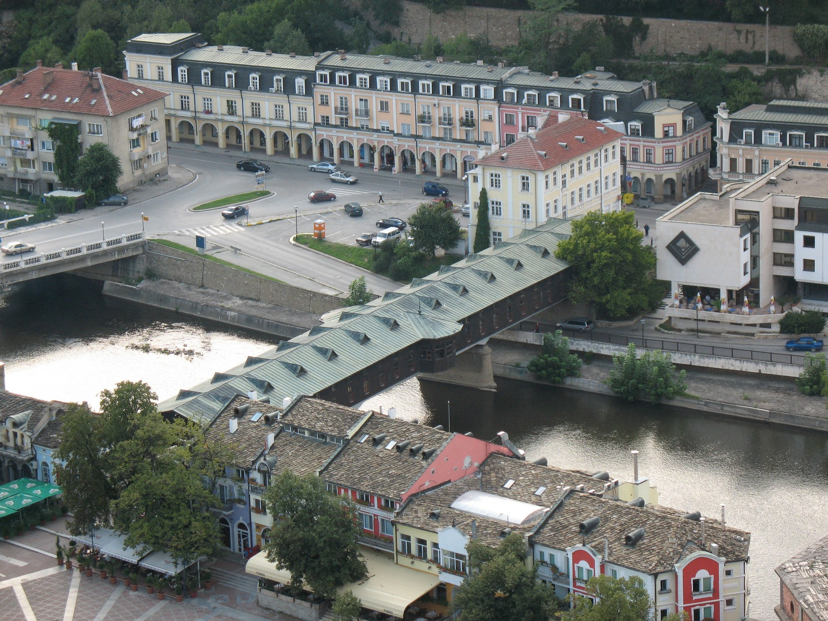 View on covered bridge, Lovech